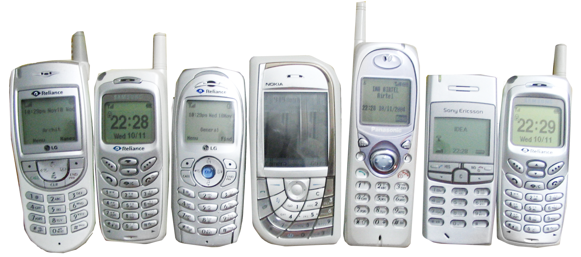 Several mobile phones